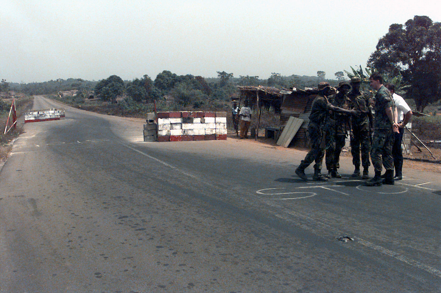 Shown is one of six security checkpoints on the 36 mile road leading from Roberts International Airport to Monrovia, Liberia. The checkpoint is being guarded by Economic Community Military Observation Group (ECOMOG) Nigerian Army Troops. The airport is being used by the United States Military during Operation ASSURED LIFT. The airport runway is two miles long and is being used by United States Air Force C-130E Hercules aircraft from the 86th Air Wing out of Ramstein Air Base, Germany. ASSURED LIFT is a Joint Task Force Operation to provide airlift and other logistical support to West African states that are deploying more than 600 troops to Liberia as part of the region's ongoing peacekeeping mission. Most of the inbound West African forces will come from the country of Mali, with the Ivory Coast and Ghana also expected to contribute troops.